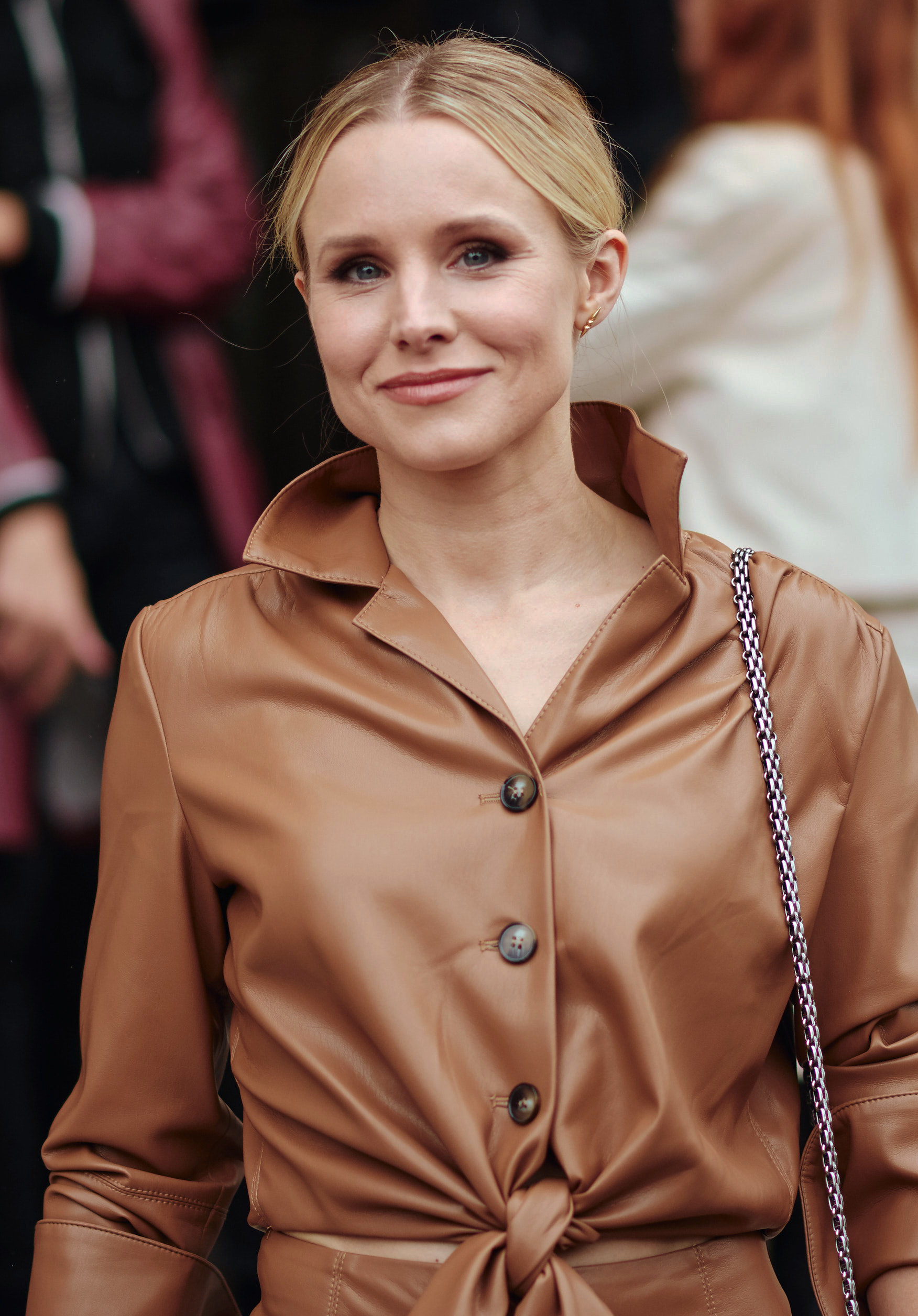 Kristen Bell at Paris Fashion Week Spring Summer 2020